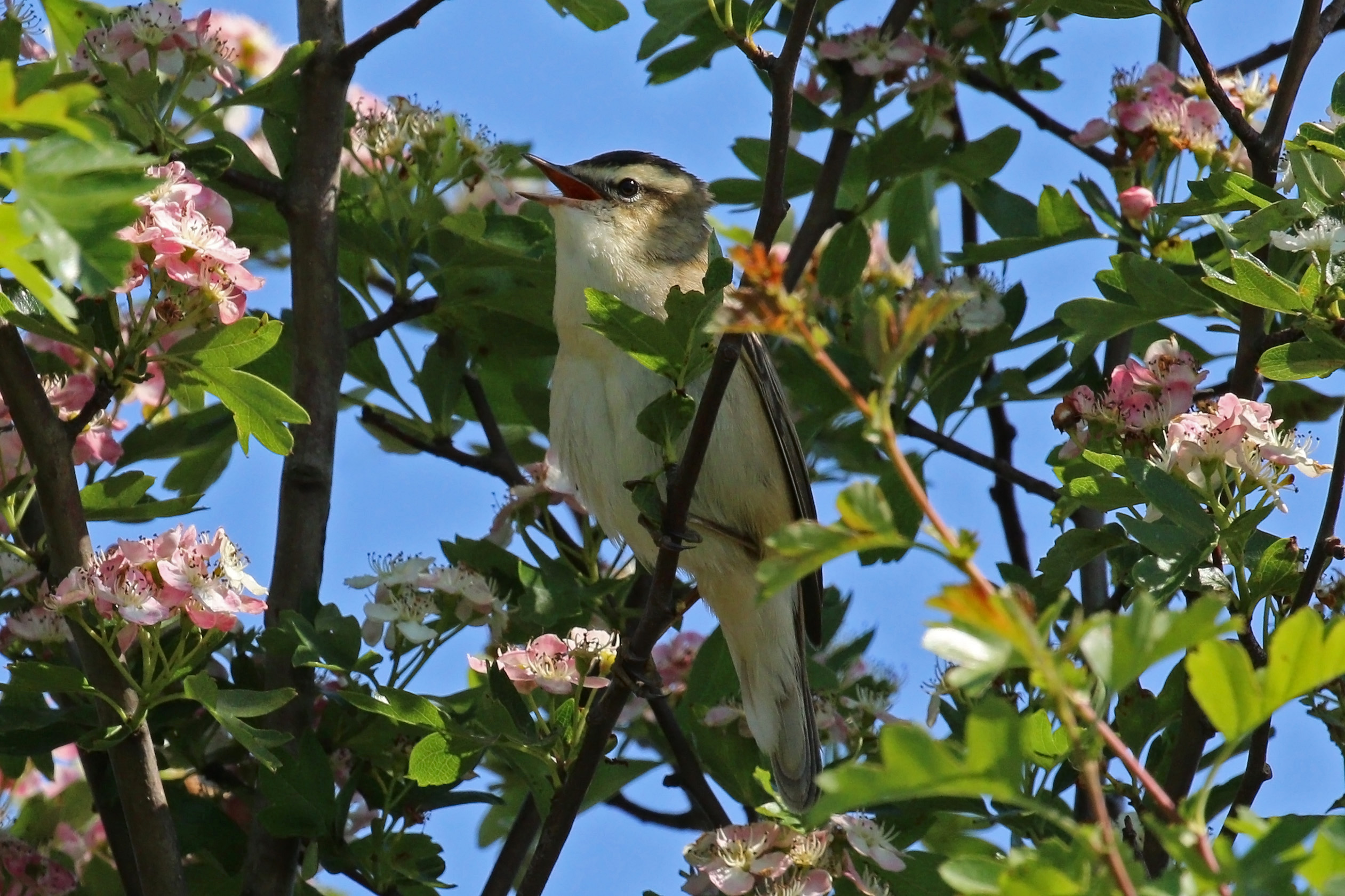 Sedge warbler (Acrocephalus schoenobaenus), male, Otmoor, Oxfordshire